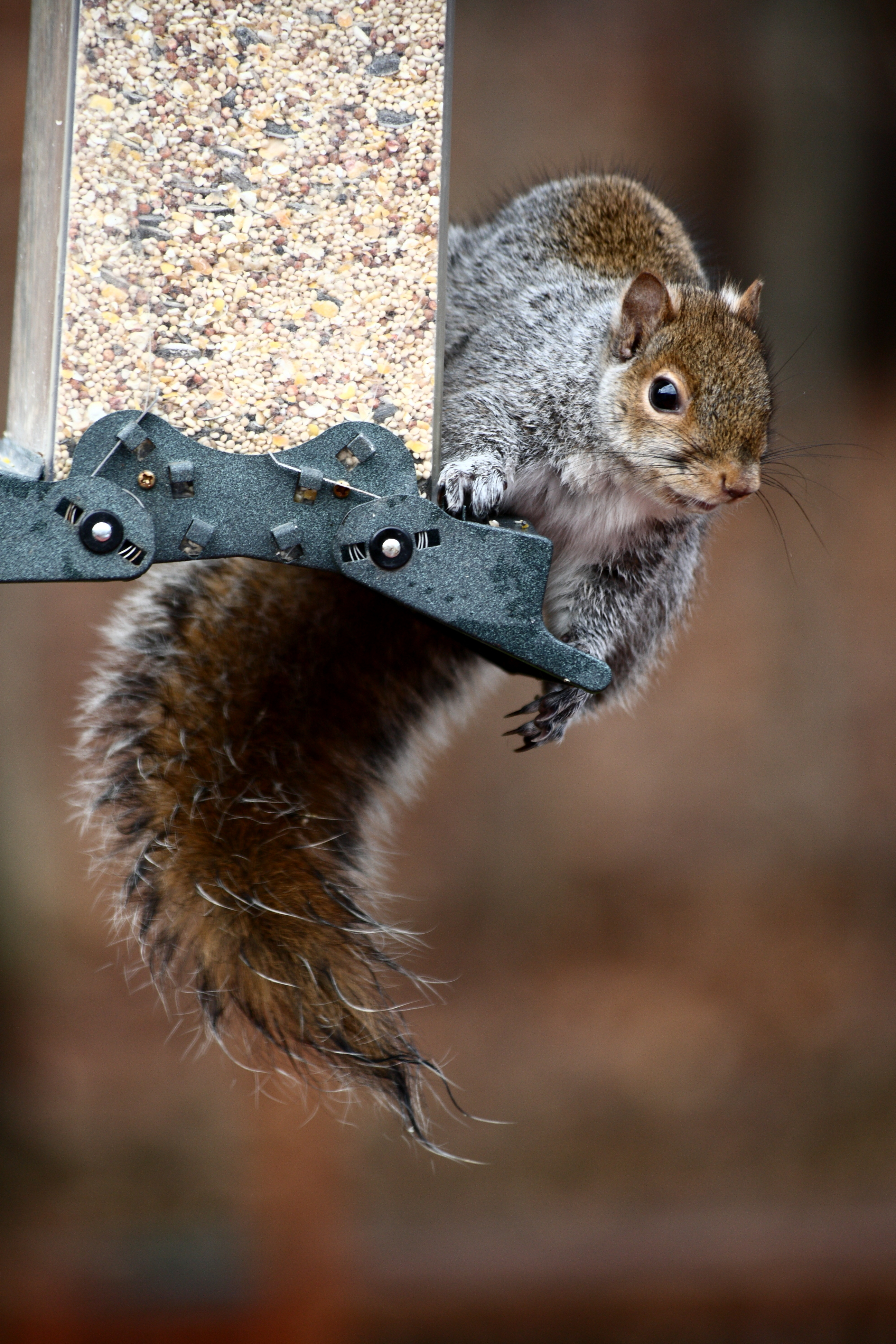 Squirrel on the bird feeder